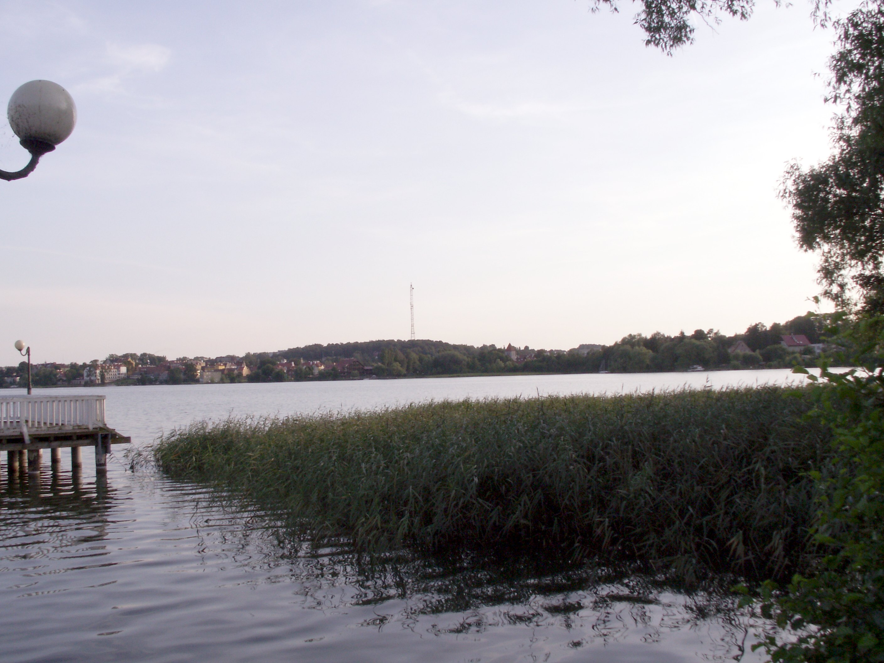 Czos, Poland